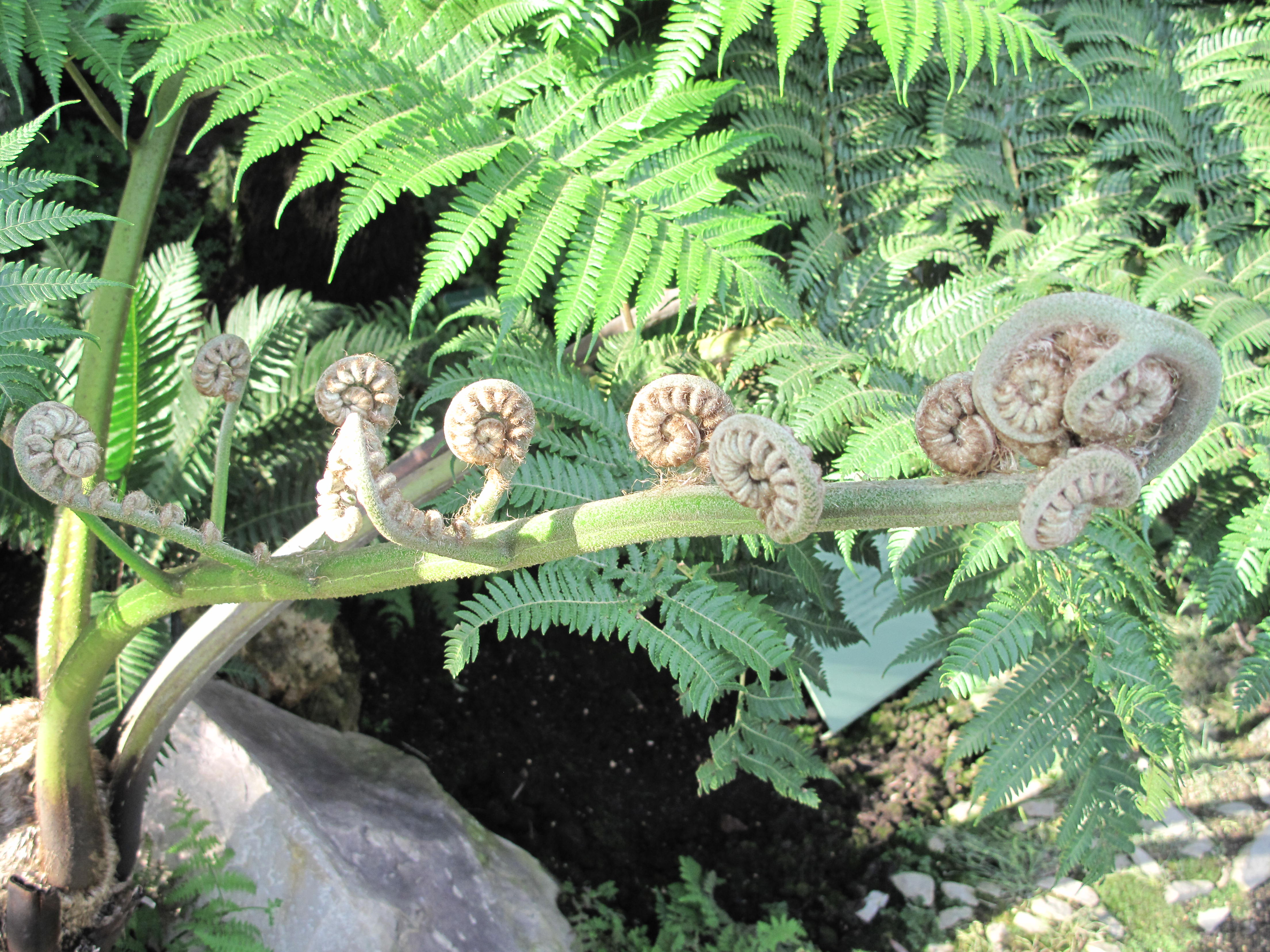 Close-up of fern fronds of Cyathea robusta in a greenhouse of the Jardin des Plantes in Paris.